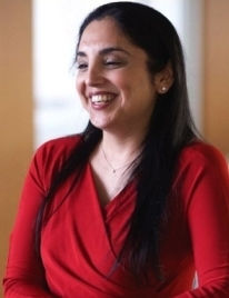 Photo of Sheena Iyengar at Columbia Business School